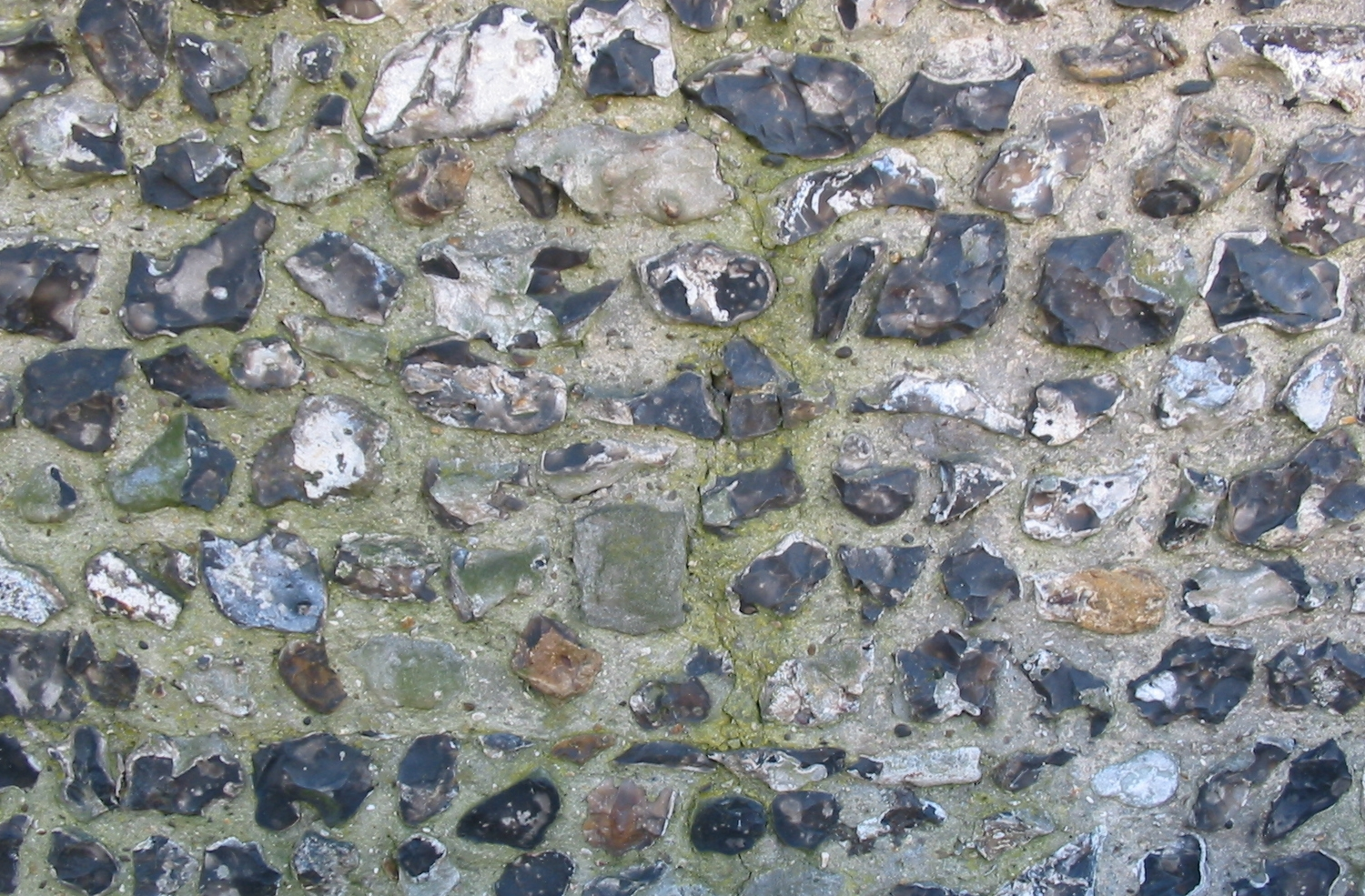 London